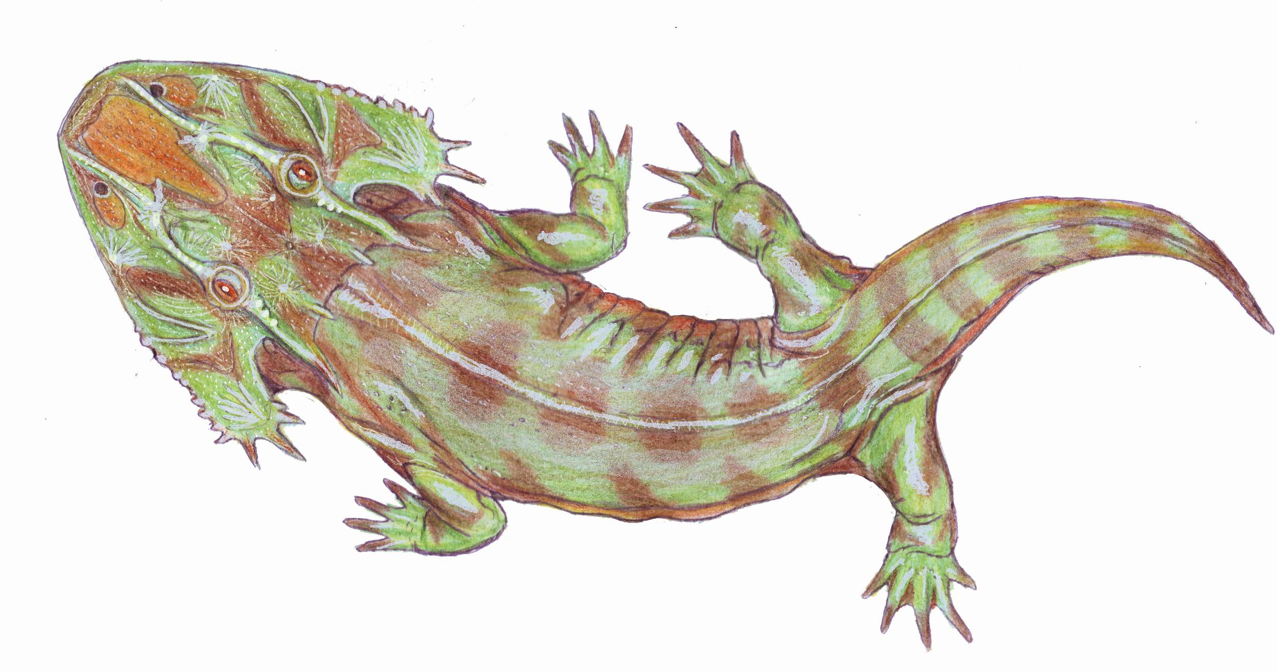 Zatrachys serratus - unusual temnospondyl from Early Permian of Texas